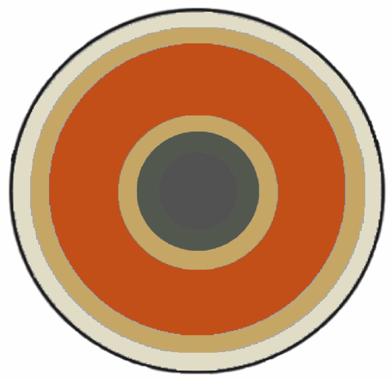 Shield pattern of the Equites stablesiani Africani is listed as vexillationes comitatenses in the Magister Equitum's cavalry roster (ND occ.).